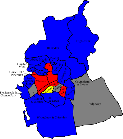 A map of the results of the 2006 Swindon Council election. Colour legend by wards won: Conservative party Labour party Liberal Democrats Wards in grey were not contested in 2006.